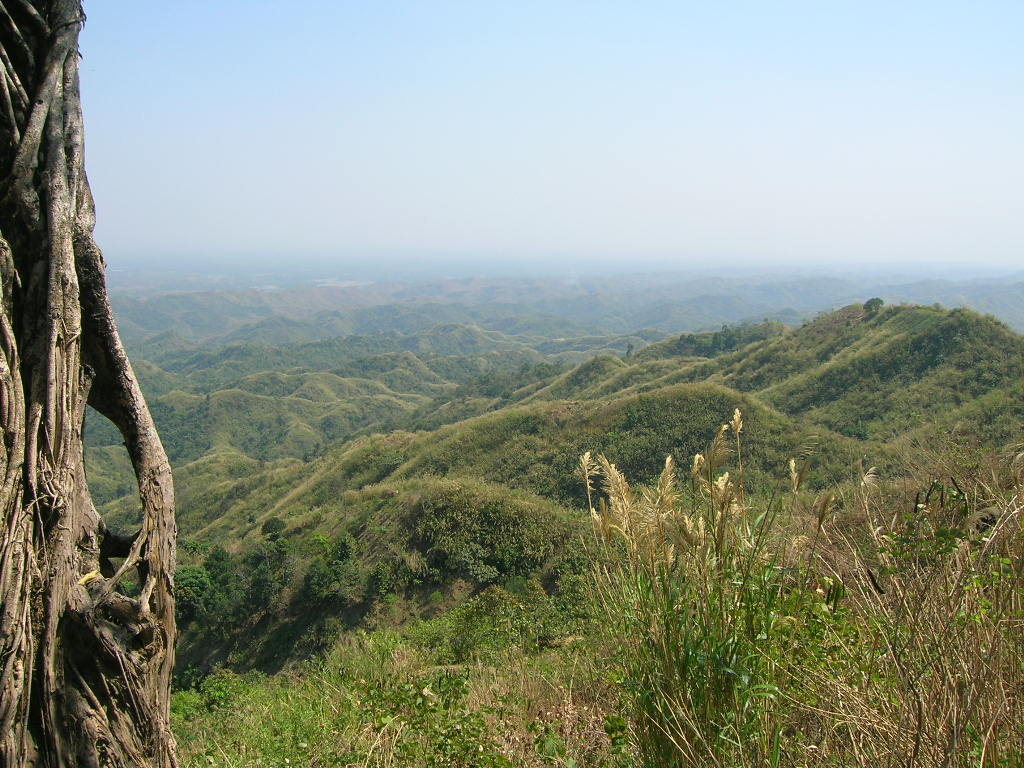 Picture of Chandranath Hill and Mandir